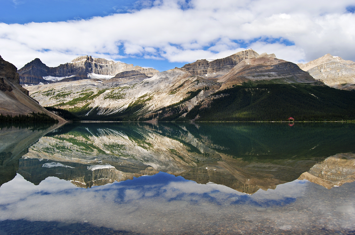 Picture of the Bow Lake and Crowfoot Mountain, in Banff National Park, Alberta, Canada, including the Num-ti-jah Lodge. Nikon D80 - 18 mm - f 5,6 - 1/400 s - ISO 100